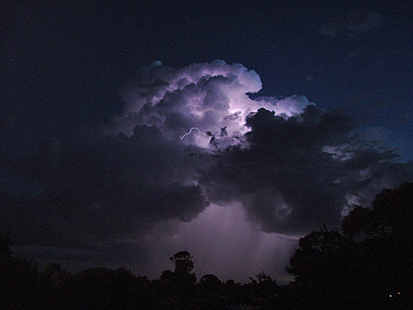 Early morning Cumulonimbus incus Northeast of Wagga Wagga, New South Wales, Australia